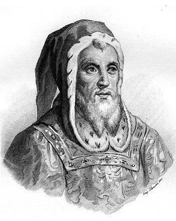 Bernabò Visconti, engraving by Eugenio Silvestri as it appears in C. Pompeo Litta, "Ritratti dei Visconti, Signori di Milano"